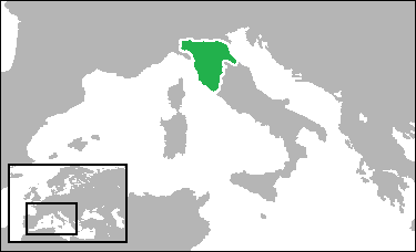 Locator map showing the United Provinces of Central Italy. (Partially based on map: [1].)